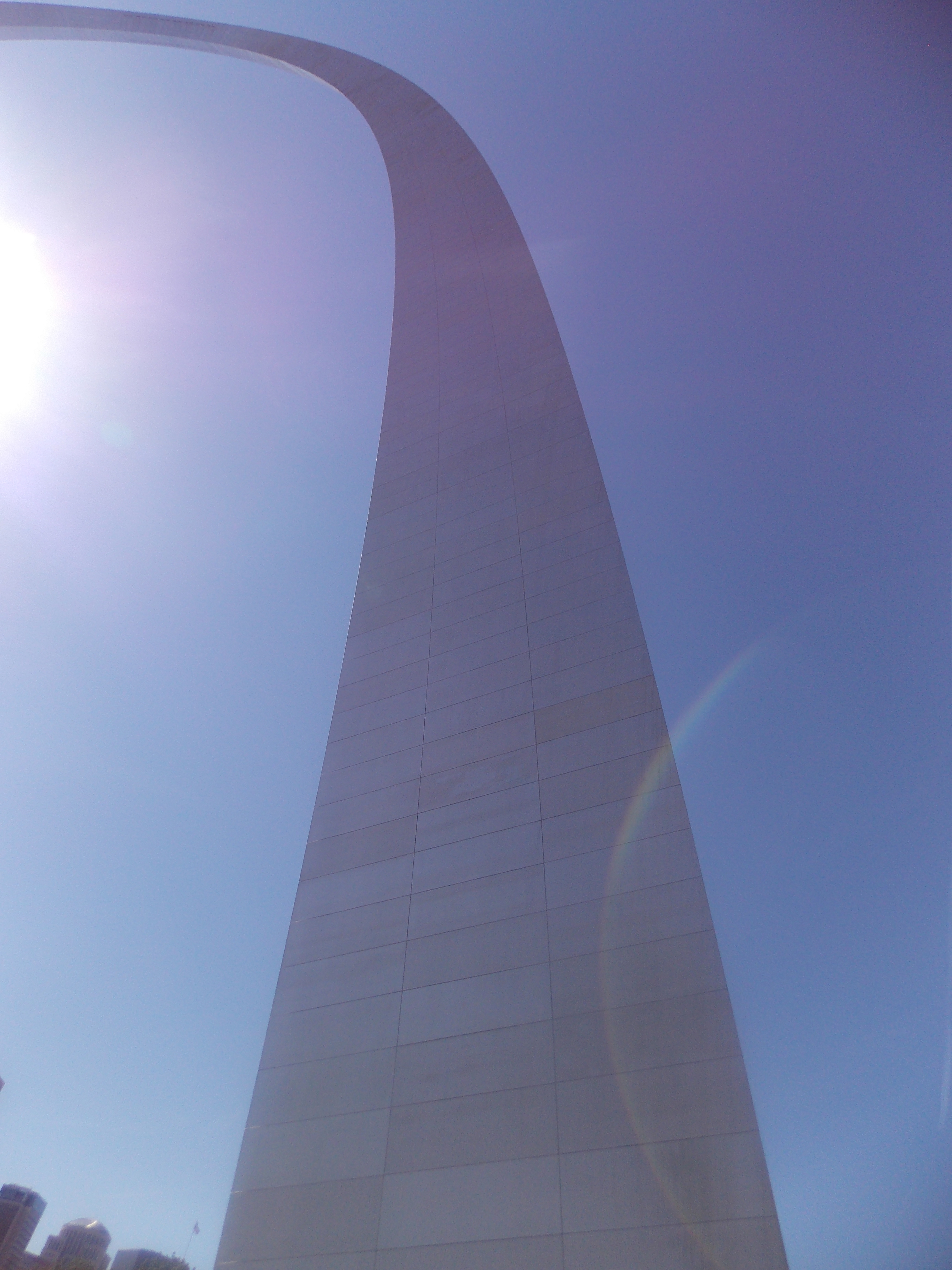 Geteway Arch